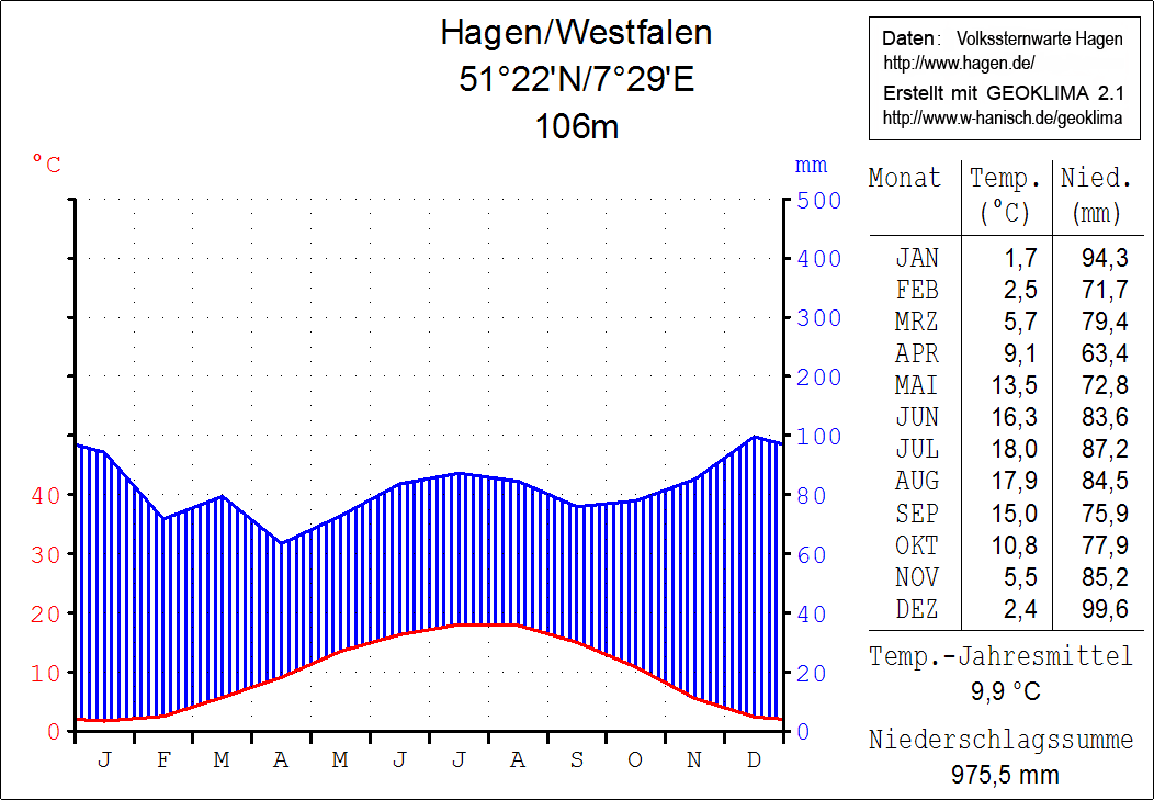 Climate chart in the Walter and Lieth format, metric, °Celsius und millimeters, made with Geoklima 2.1